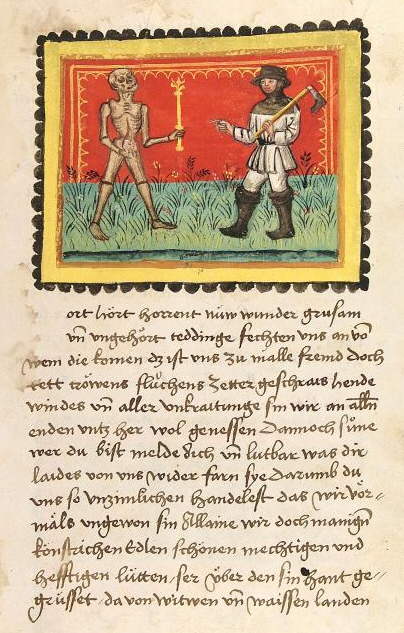 Page from the illuminated manuscript of Johannes von Tepl's Der Ackermann aus Böhmen (The peasant from Bohemia). Illustration from the 2nd chapter, showing Death and the peasant. University Library Heidelberg, Cod. Pal. germ. 76, fol. 3r